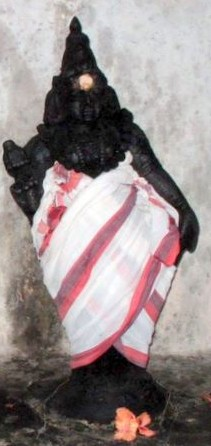 Nalvar, Thirukkarugavur